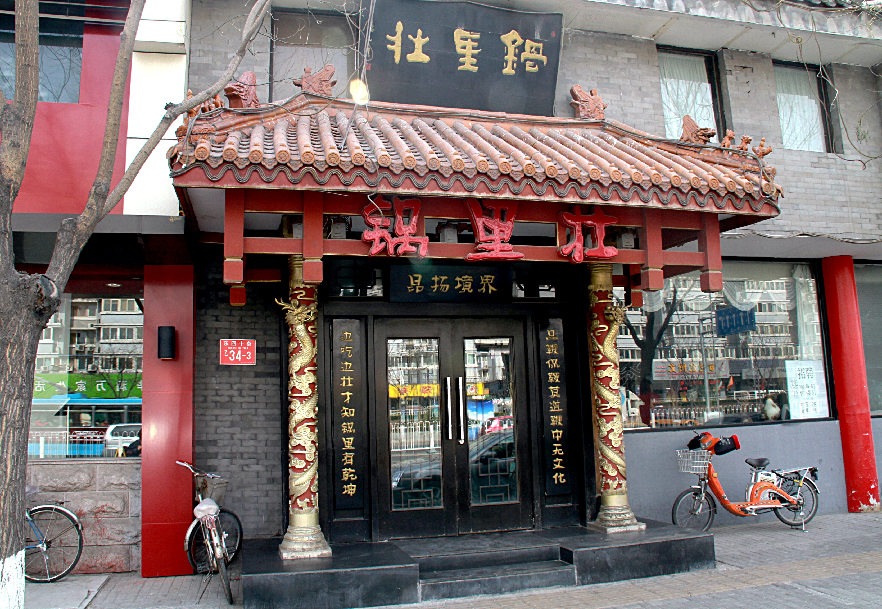 Photograph of the entrance to the Guo Li Zhuang restaurant in Dongcheng District, Beijing.